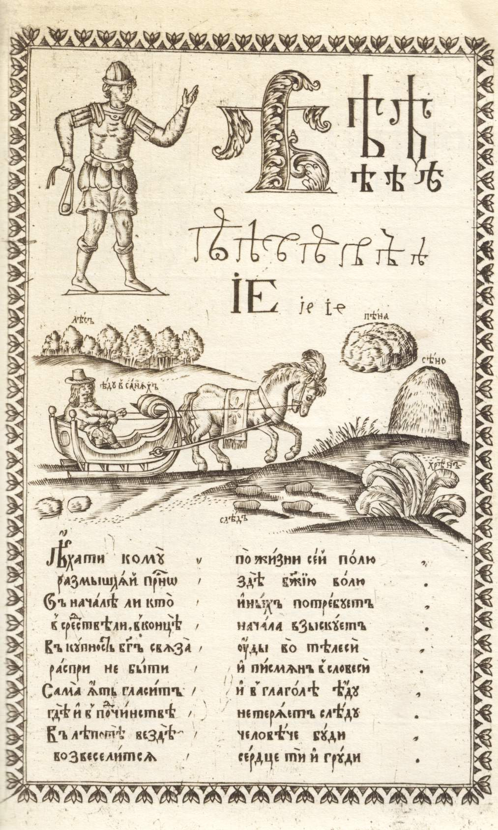 Karion Istomin's alphabet book, letter Ѣ